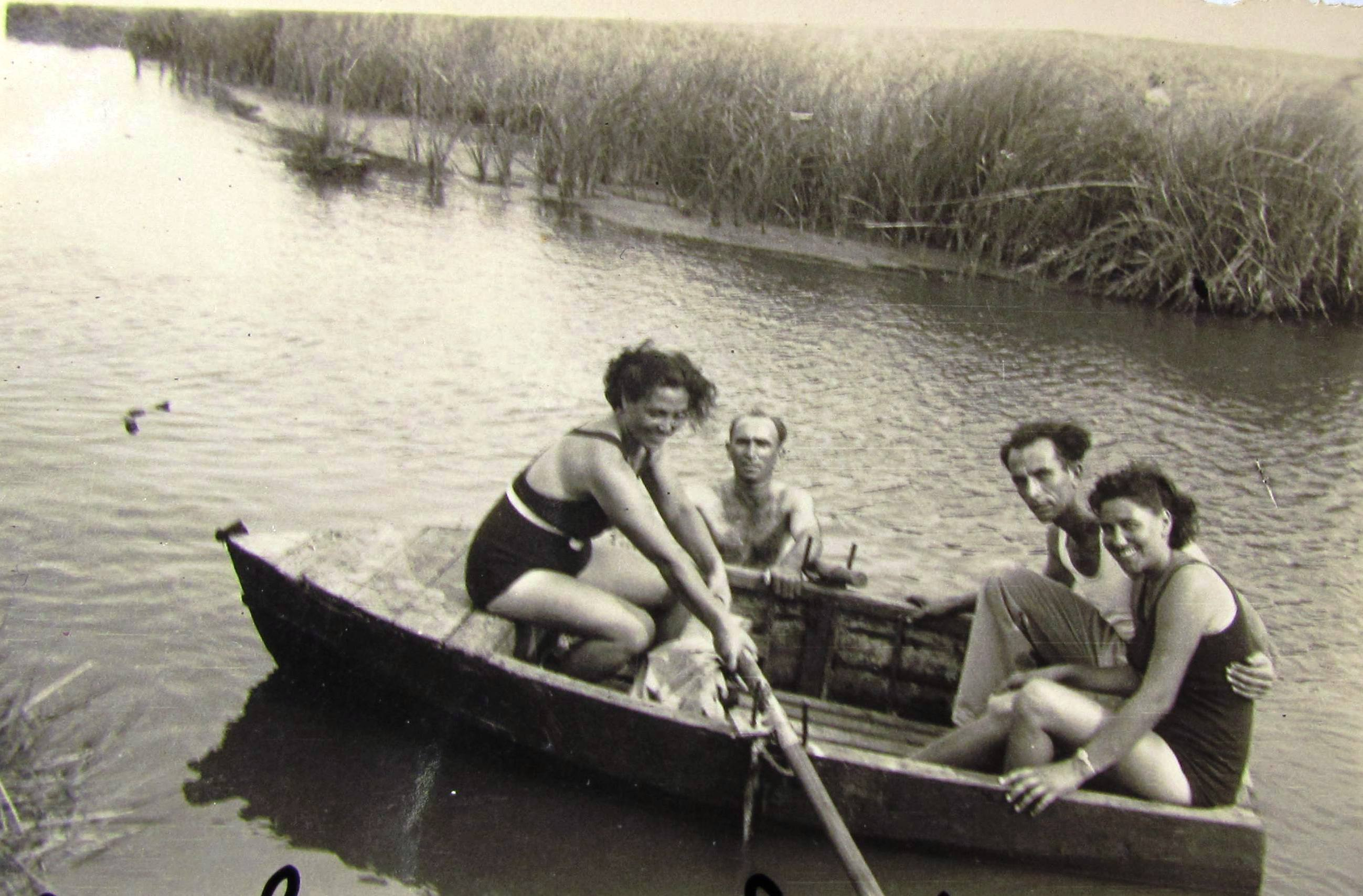 Cruising in the Naaman Stream.